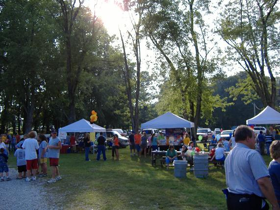 A festival held in Henryville, Indiana on September 16, 2006.